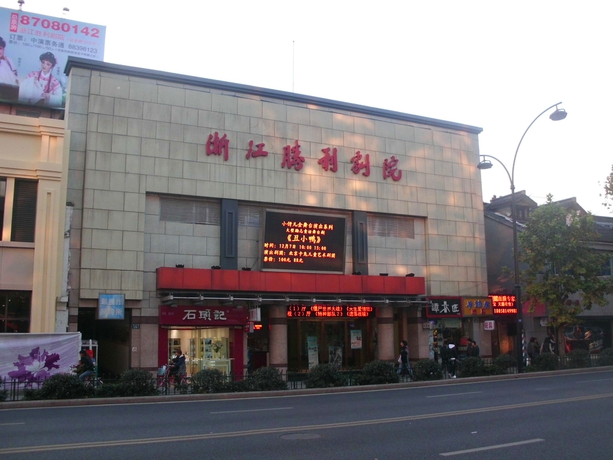 Zhejiang Shengli Theater